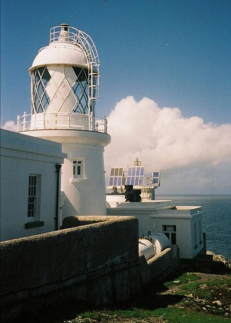 Lundy Island: the lighthouse at North West Point At the northern tip of Lundy, a close-up of the lighthouse taken after descending these steps: 456673